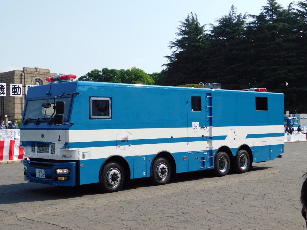 A Radiation Protection Vehicle of the fourth Riot Police Unit.